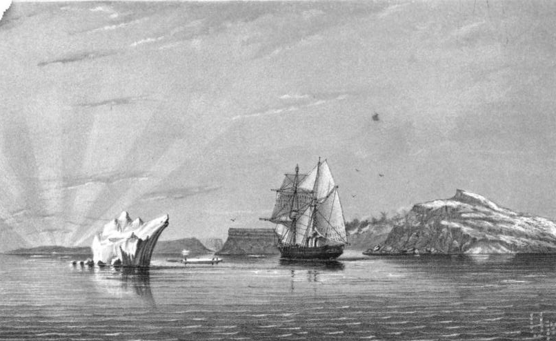 Illustration from Inglefield's book